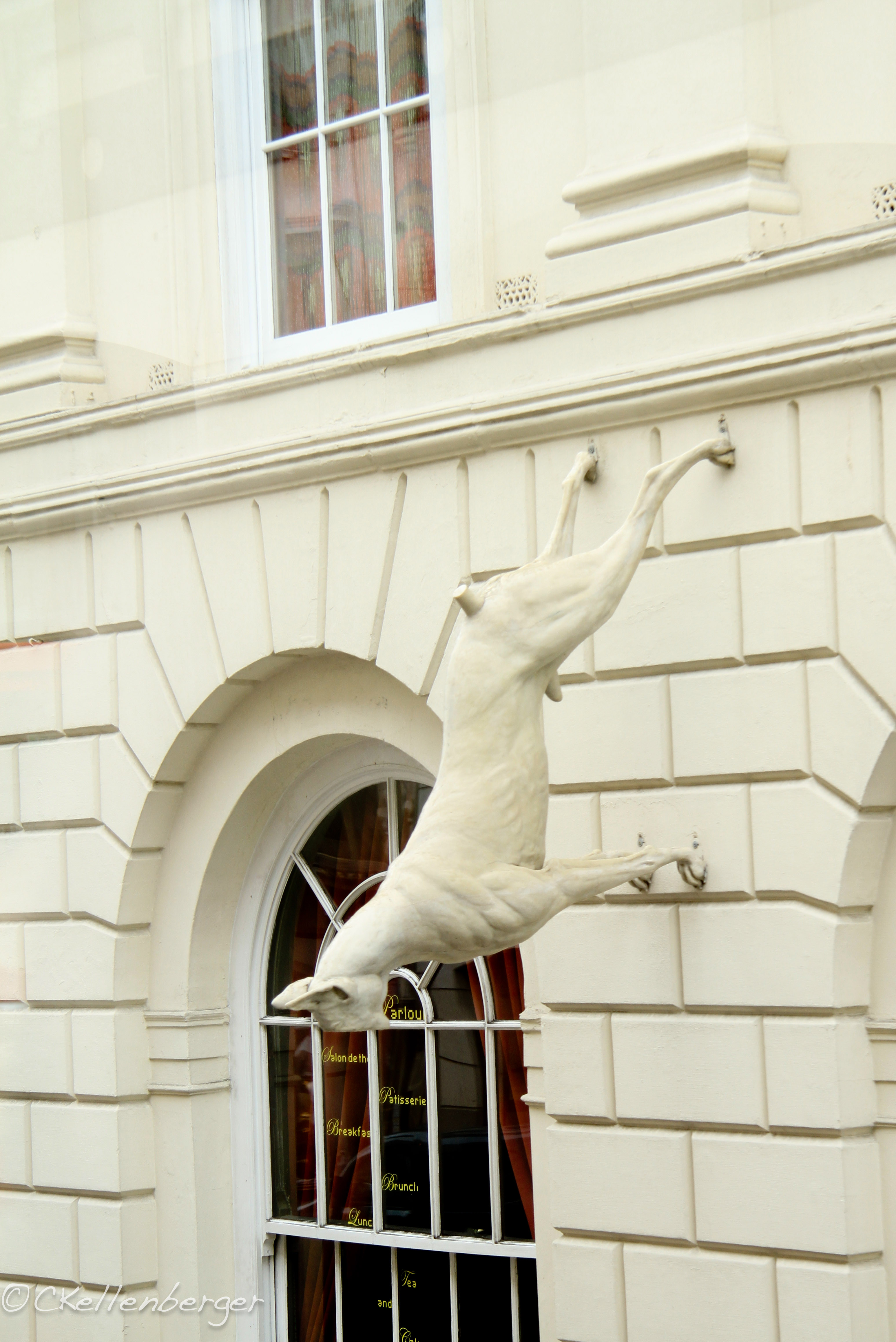 The Faceless Dog Statue at Sketch Restaurant